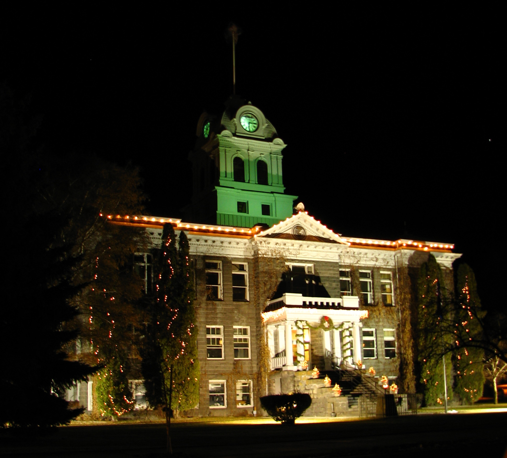 The Crook County Courthouse in Prineville, Oregon, United States, decorated in celebration of the Christmas season.